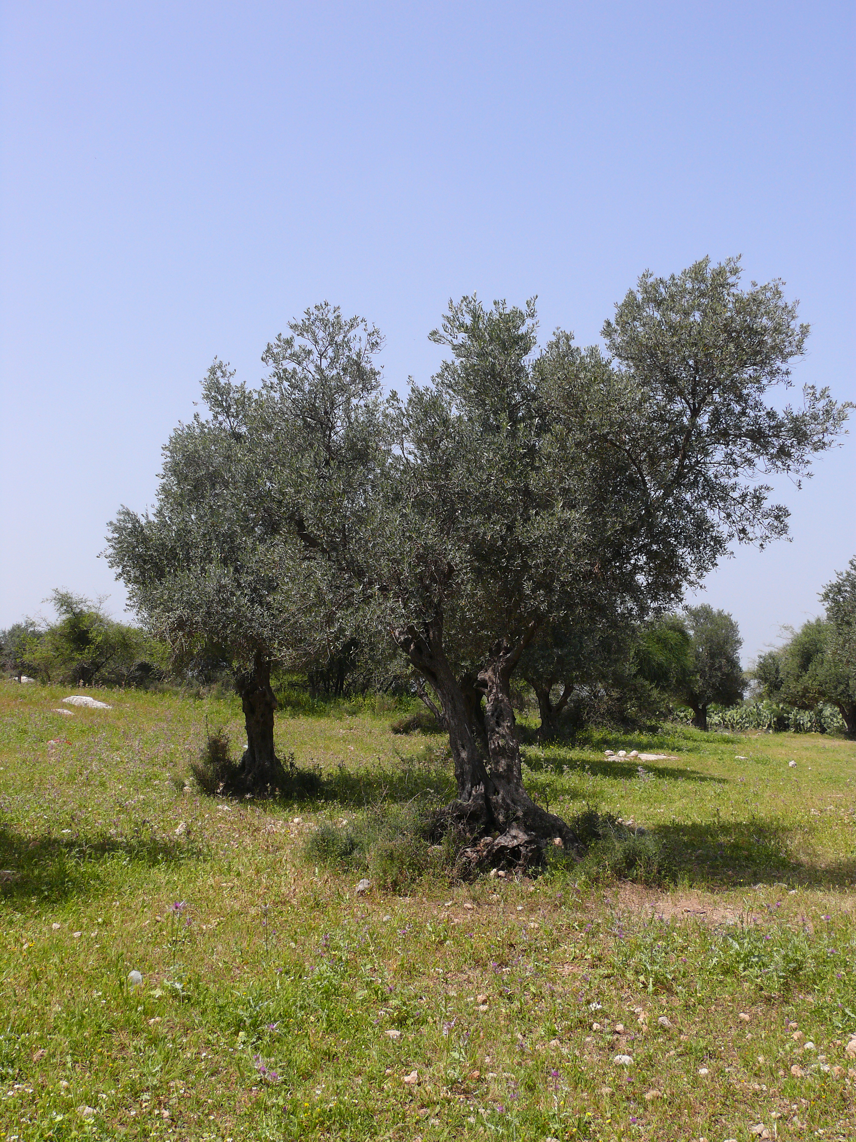 Olive tree: Olea europaea, in Israel